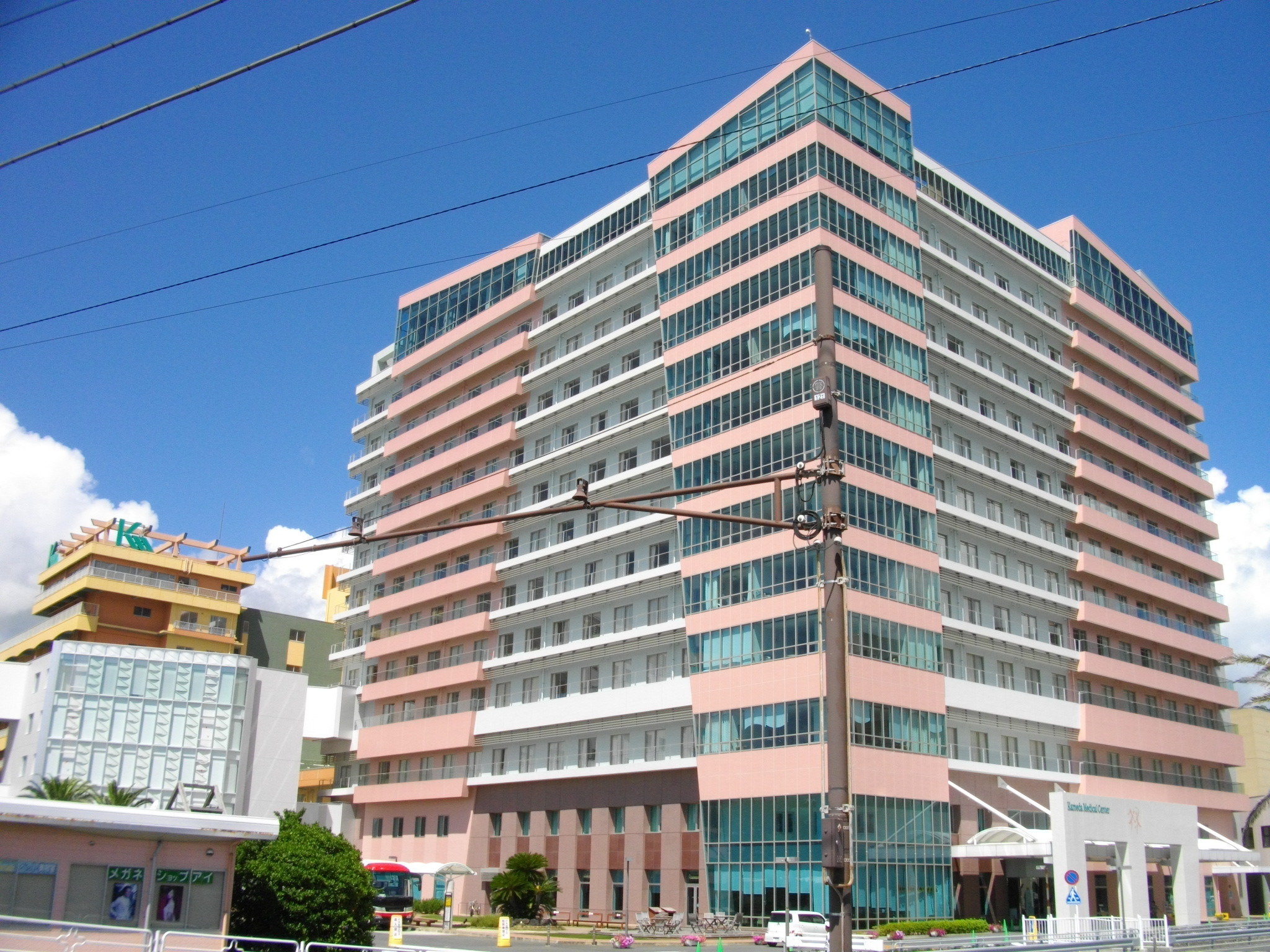 Kameda Medical Center